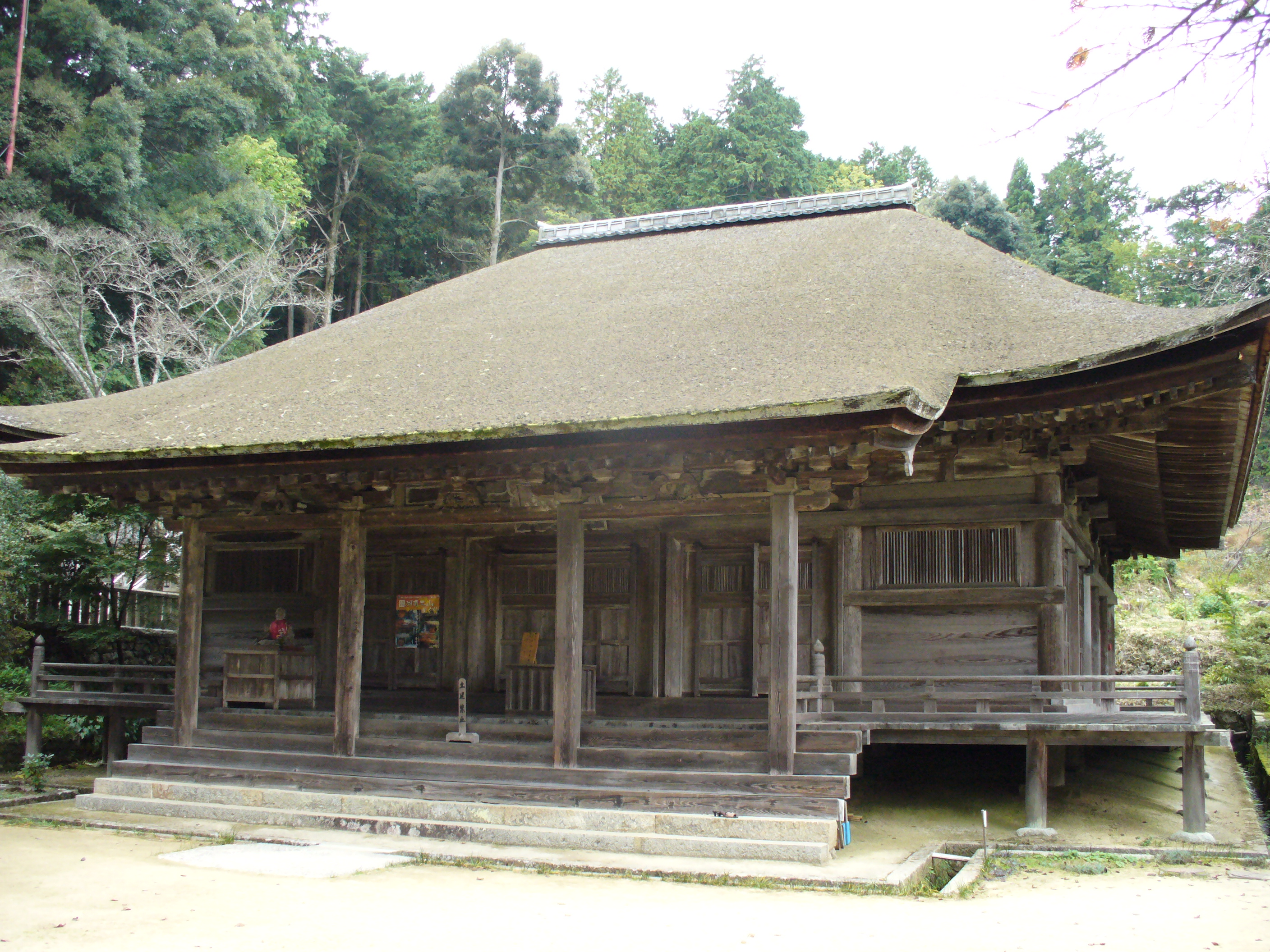 Photograph of Tyoujuji houdou(the national treasure of Japan), taken in Konan city, Shiga, Japan.